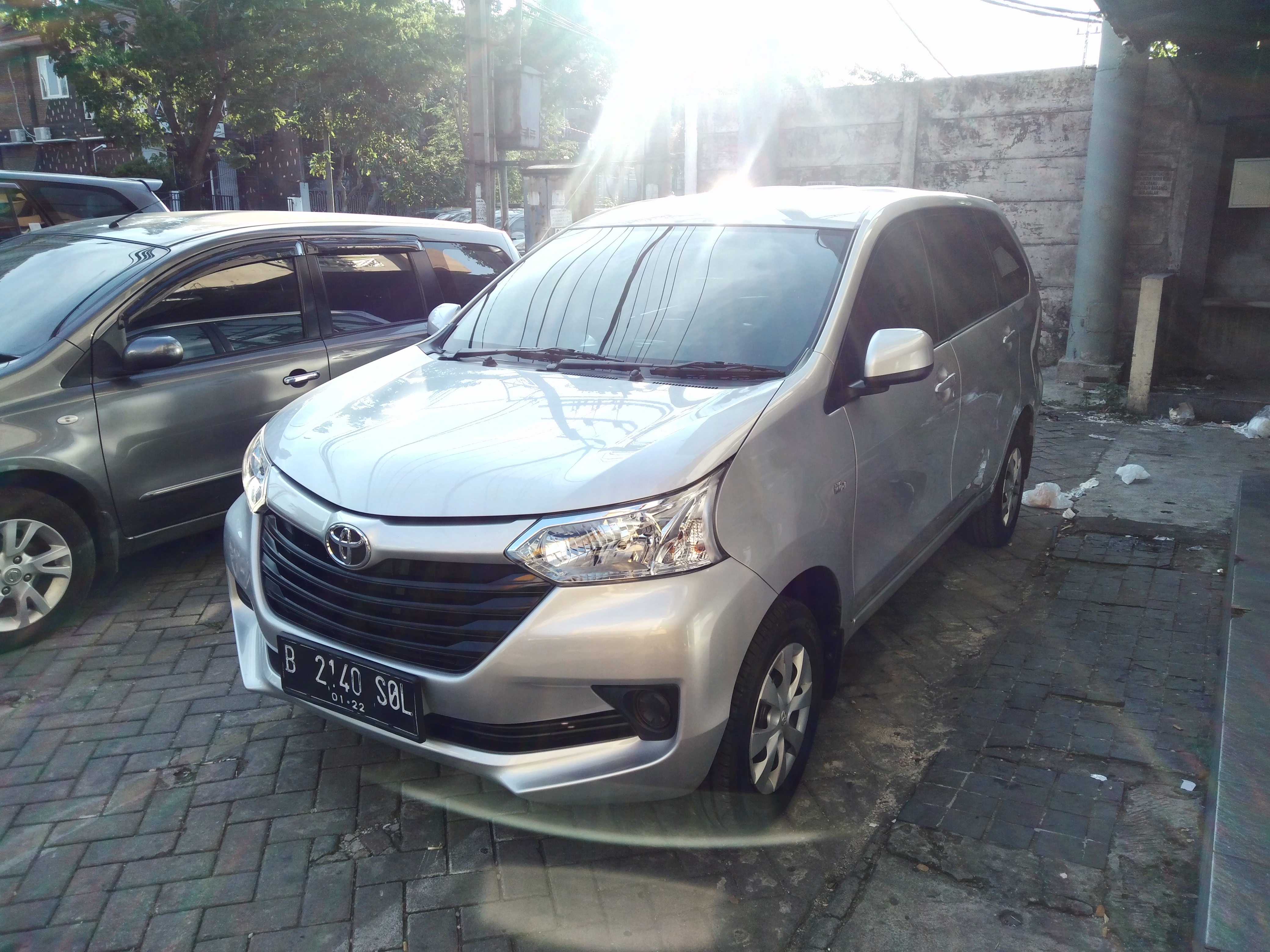 2017 Toyota Avanza 1.3 E photographed at the shop house near the horse statue in HR Muhammad street, West Surabaya, East Java, Indonesia.